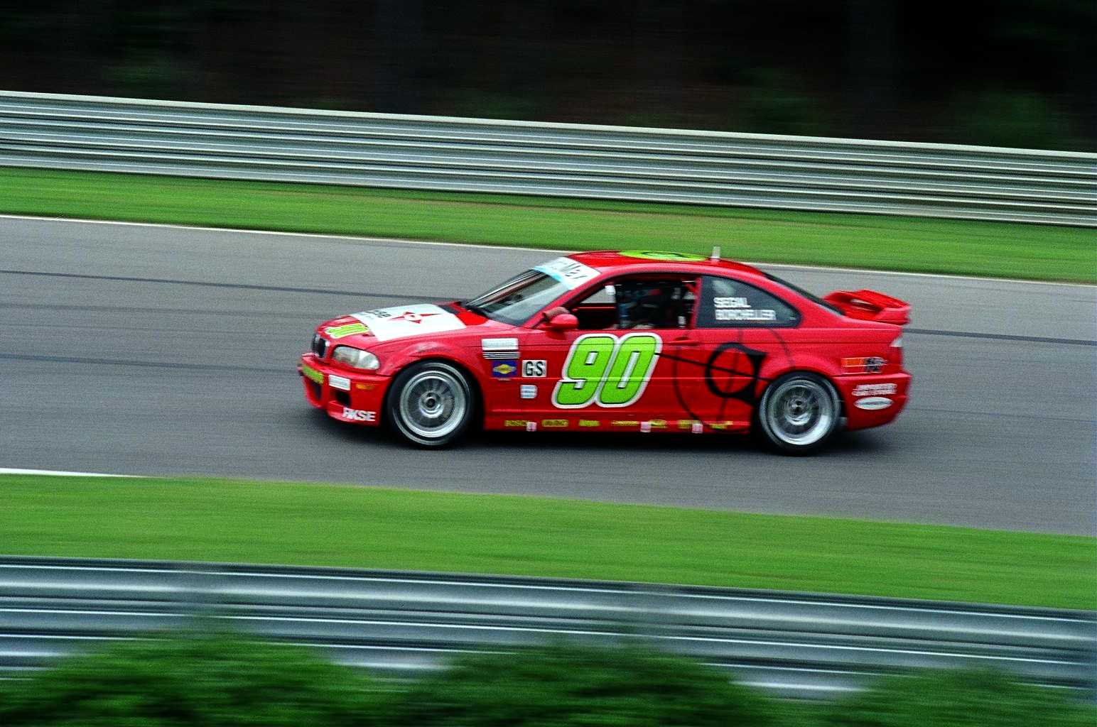 "Terry Borcheller and Jeff Segal finished third in the No. 90 Automatic Racing BMW M3. It is the fourth top-six finish for Borcheller in only five Grand-Am Cup Series starts in 2006, and the second podium finish of the year for Segal, who also finished third at Laguna Seca." ... per results wrap-up on the GrandAmCup site.